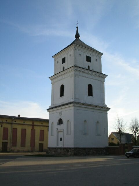 Plungė belfry.